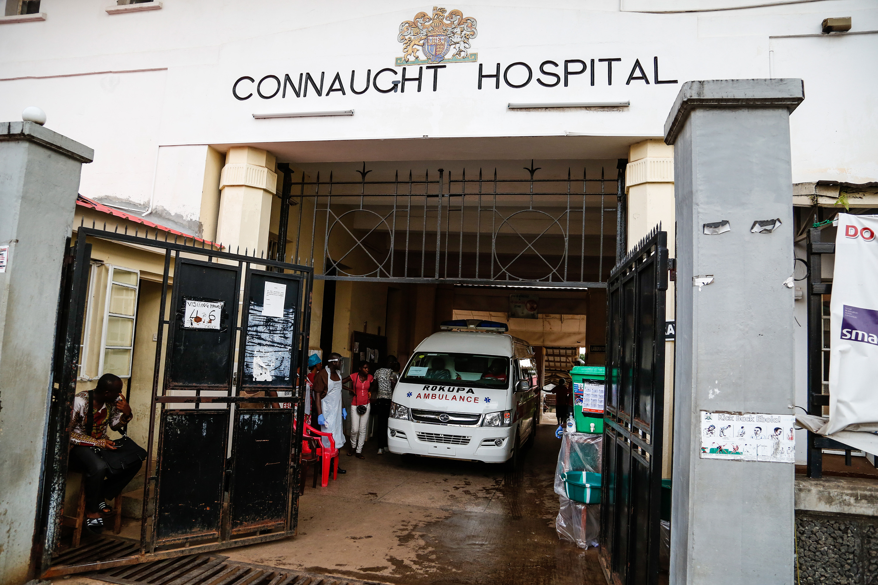 Connaught Hospital was on the frontline of the Ebola epidemic when it hit in Freetown, Sierra Leone. Throughout the crisis, UK aid supported the King's Health Partners team to provide lifesaving care and expertise, with British medics on the ground. Although the outbreak nears its end, it has devastated the health care system across the country. To help beat future outbreaks - and build a better health service - UK aid is helping to build a new Ebola isolation unit at the hospital, redevelop its Accident and Emergency department and support the British medics sharing their skills and expertise with local staff. Picture: Simon Davis/DFID Free-to-use photo This image is posted under a Creative Commons - Attribution Licence, in accordance with the Open Government Licence. You are free to embed, download or otherwise re-use it, as long as you credit the source as 'Simon Davis/DFID'.